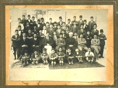 Portrait of a graduating class from Al-Najah School (now university) in Nablus in 1920 – No names identified.